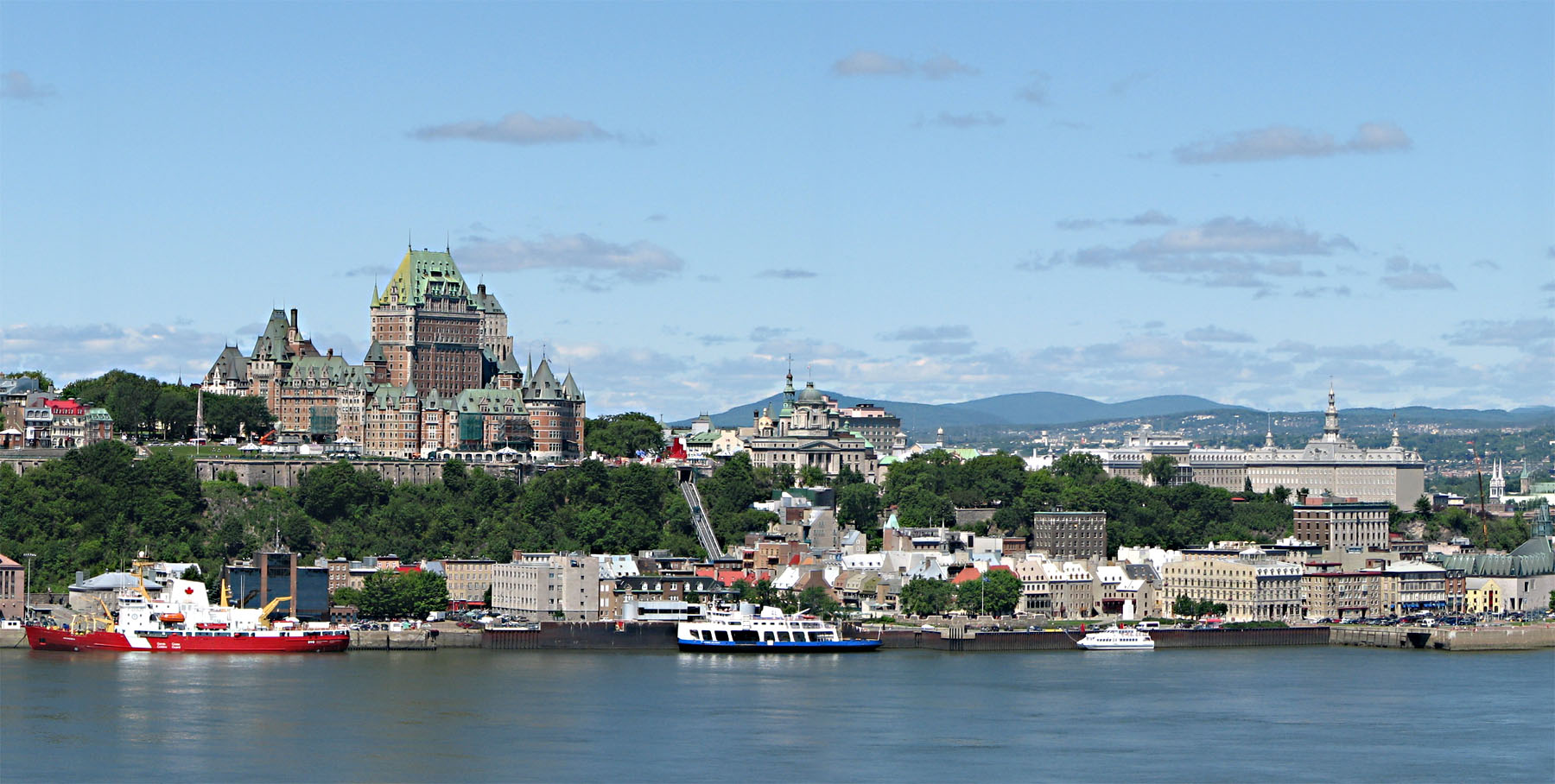 Panorama of Québec City from Lévis.